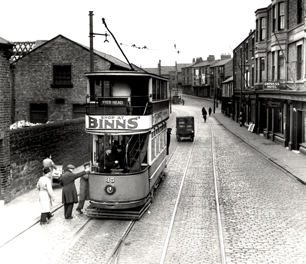 JFIFVersion - 1.02 X-Resolution - 600 dpi Y-Resolution - 600 dpi Image Width - 3271 Image Height - 2825 Bits Per Sample - 8 8 8 Compression - Uncompressed Image Description - Type : Photograph Medium : Print-black-and-white Description : Photograph of Tram 3 on the Tyne Dock to Pierhead route stationary with four people boarding. Shows the Empress Hotel on the right hand side. Shows woman pushing a pram, pedestrians and cyclists in the background. Transport Collection : Local Studies Printed Copy : If you would like a printed copy of this image please contact Newcastle Libraries quoting Accession Number : 058837 Orientation - Horizontal (normal) Samples Per Pixel - 3 Planar Configuration - Chunky Software - Adobe Photoshop CS4 Macintosh Date and Time (Modified) - 2009:08:27 08:45:00 YCbCr Positioning - Centered Exif Version - 0231 Components Configuration - Y, Cb, Cr, - Flashpix Version - 0100 Color Space - sRGB Application Record Version - 0 Object Name - 058837:Tram South Shields unknown undated Keywords - Transport" "" "" "" "" "" "Tyneside Life and Times" "Newcastle u Copyright Flag - False Global Angle - 120 Global Altitude - 30 IPTCDigest - e8f15cf32fc118a1a27b67adc564d5ba XMPToolkit - XMP Core 4.1.1-Exiv2 Format - image/jpeg Color Mode - RGB ICCProfile Name - sRGB IEC61966-2.1 Bits Per Sample - 8 Compression - Uncompressed Native Digest - 256,257,258,259,262,274,277,284,530,531,282,283,296,301,318,319,529,532,306,270,271,272,305,315,33432;AAC04DE10F23F0FF5A8DBAB1202AF38D Orientation - Horizontal (normal) Photometric Interpretation - RGB Planar Configuration - Chunky Samples Per Pixel - 3 Date and Time (Digitized) - 2002:09:10 11:28:58+01:00 Metadata Date - 2009:08:27 08:45+01:00 Document ID - xmp.did:04A342DB8721681197D2FE54DC126E72 Instance ID - xmp.iid:05A342DB8721681197D2FE54DC126E72 Original Document ID - xmp.did:04A342DB8721681197D2FE54DC126E72 Marked - False